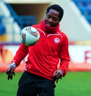 Jean II Makoun